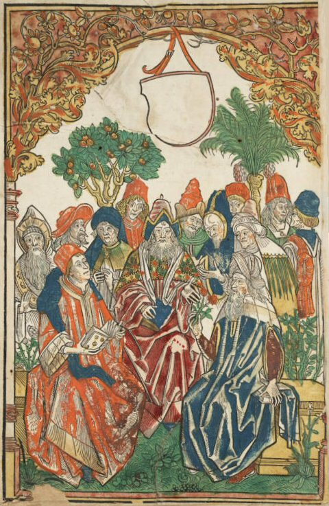 Frontispiece of the first edition of the Hortus Sanitatis herbal, 1485